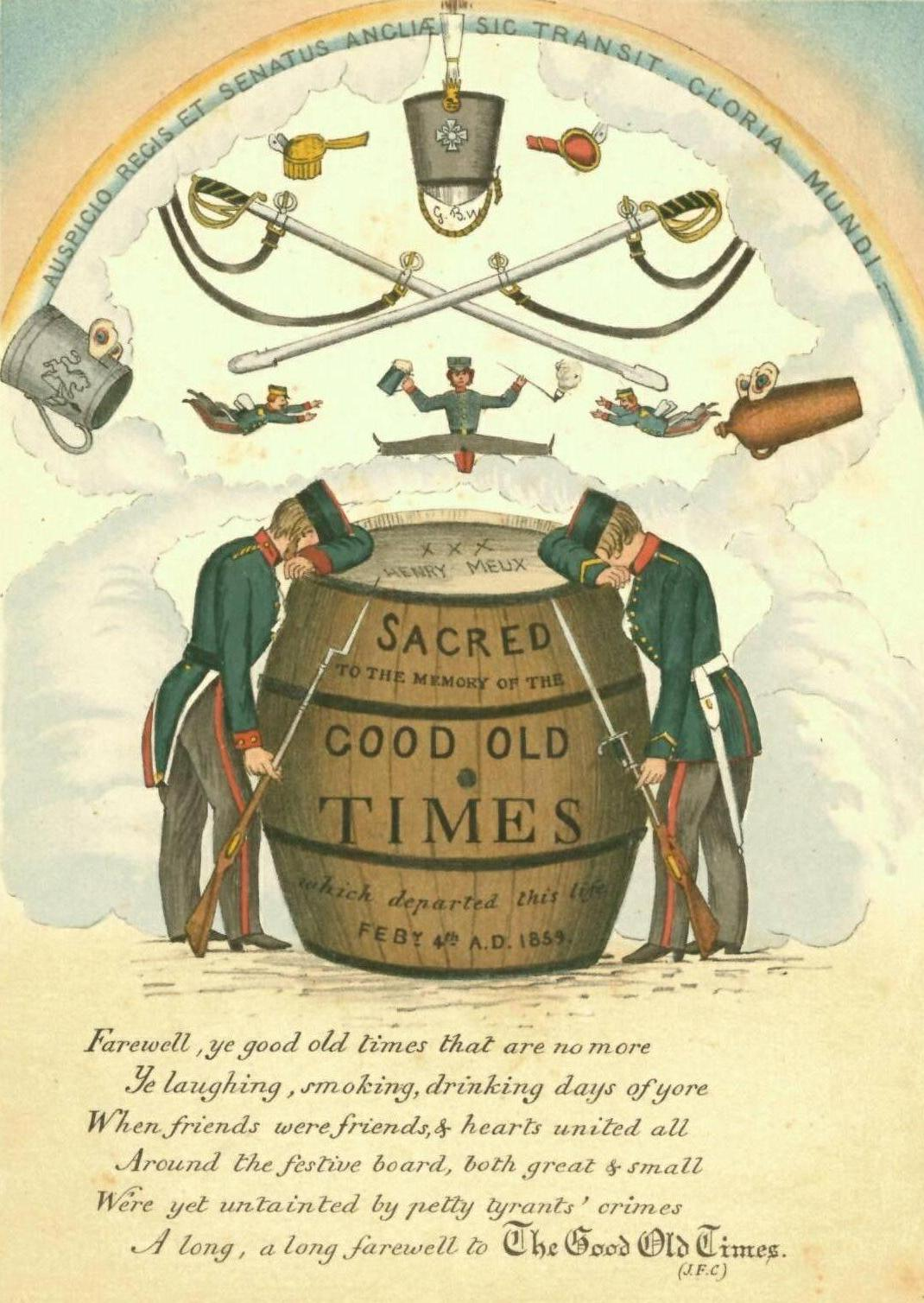 Cartoon by George B Wymer and poem by John F Cookesly commemorating their departure from Addiscombe Military Academy, Surrey, 1859